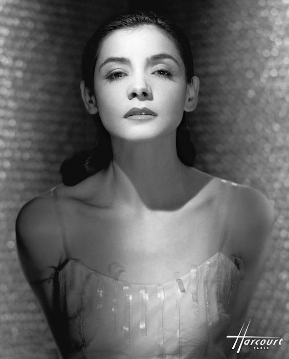 Clotilde Courau photographed by Studio Harcourt Paris